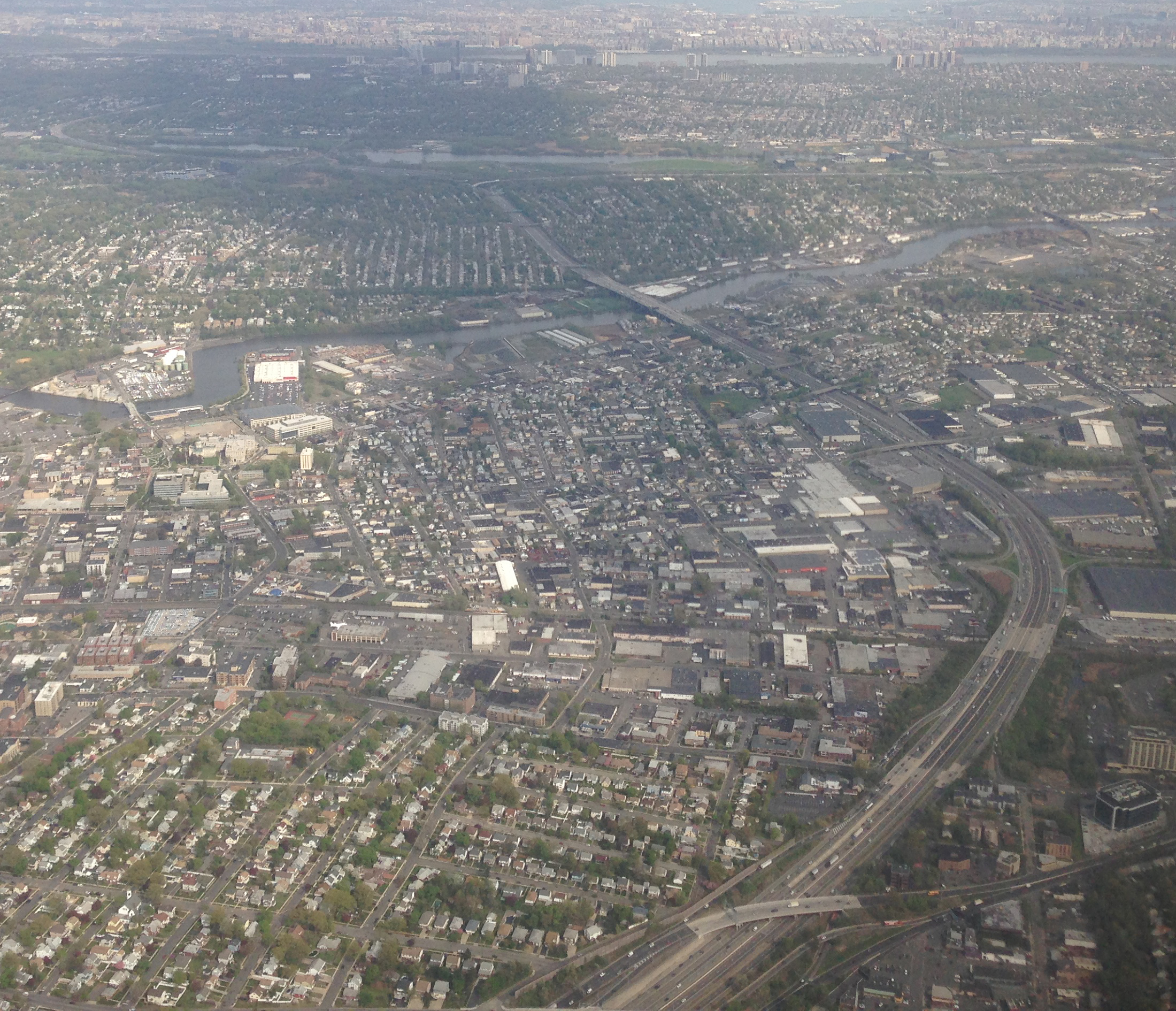 View of the eastern end of Interstate 80 from an airplane heading for Newark Airport-cropped